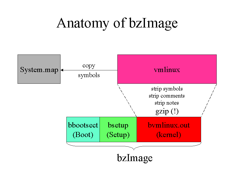 from